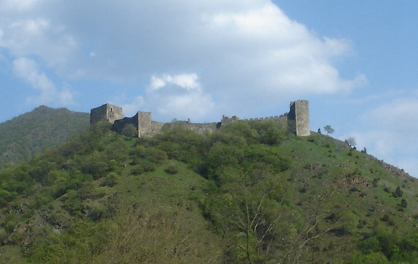 View on Maglič fortress from Ibarska magistrala, Serbia.